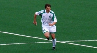 Alexandr Shirko in action for FC Tom